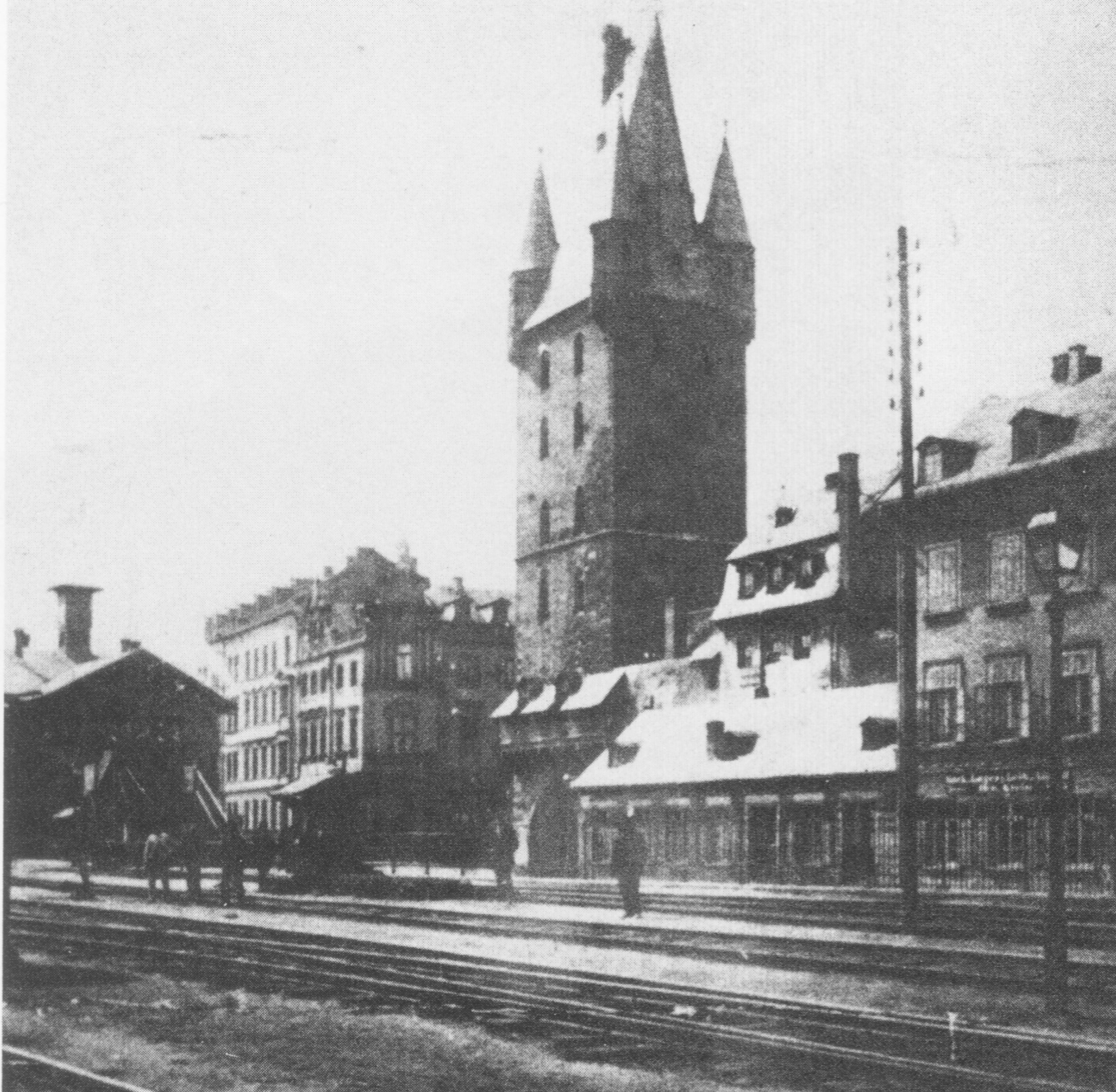 Holzturm in Mainz before 1880; in Front the Zentralbahnhof station, which was removed in 1884